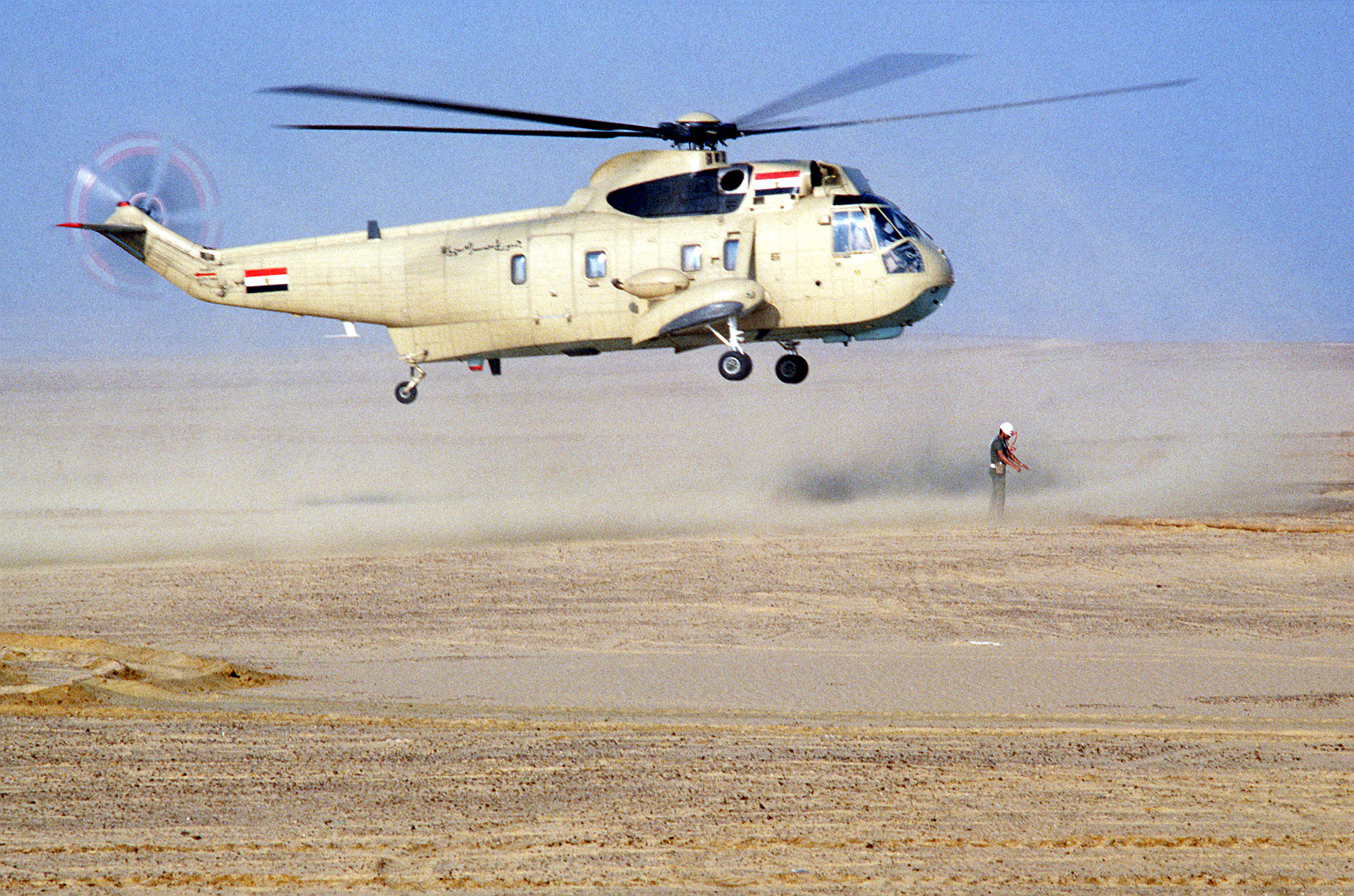 An Egyptian Sikorsky VH-3A helicopter prepares to land during the multinational joint service exercise Bright Star '85.